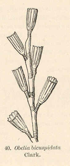 Obelia bisucpidata Clark Subject: Obelia, Hydroida Tag: Invertebrates